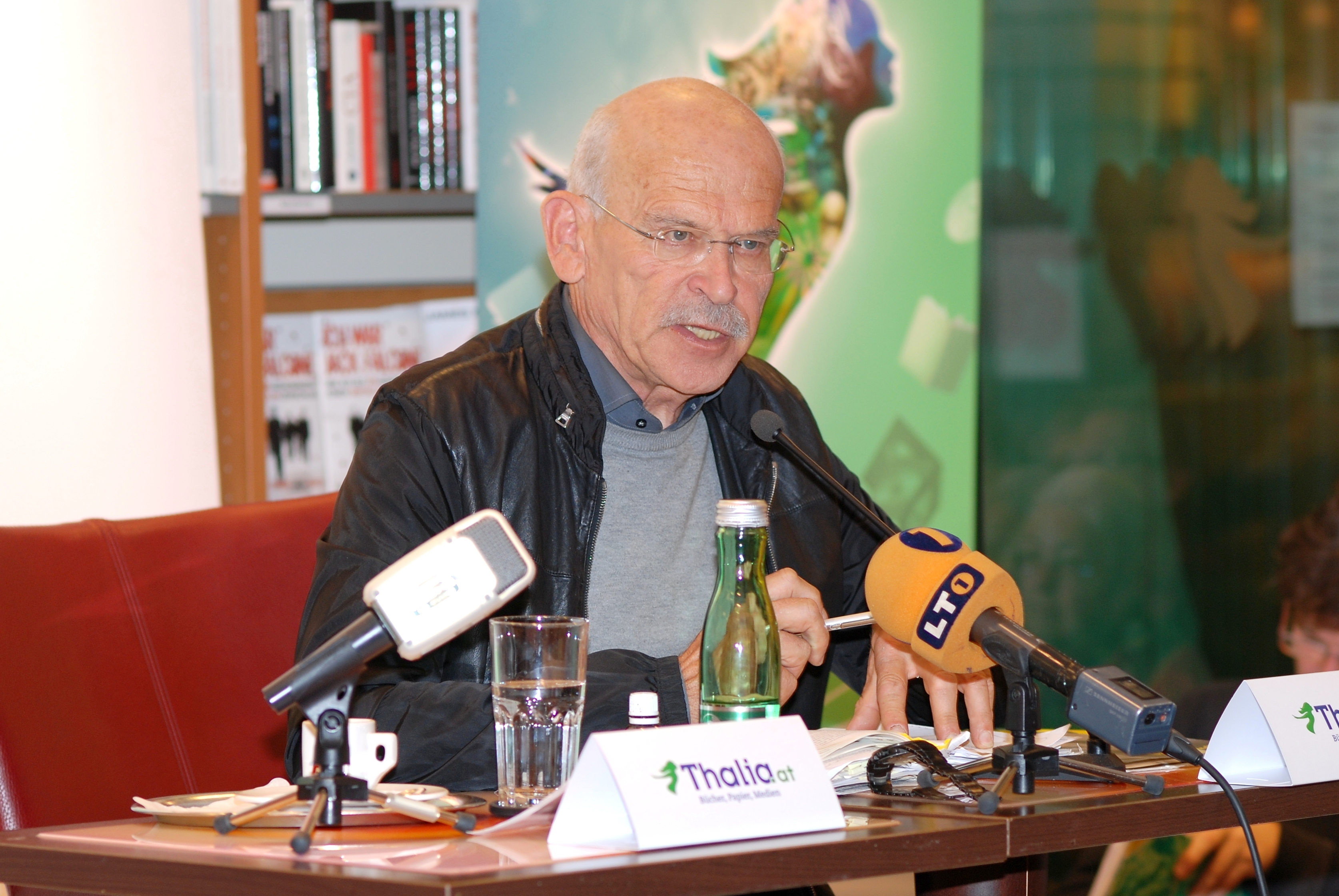 The German undercover journalist Günter Wallraff; taken during a book presentation at the Thalia store Linz Landstraße in Austria.